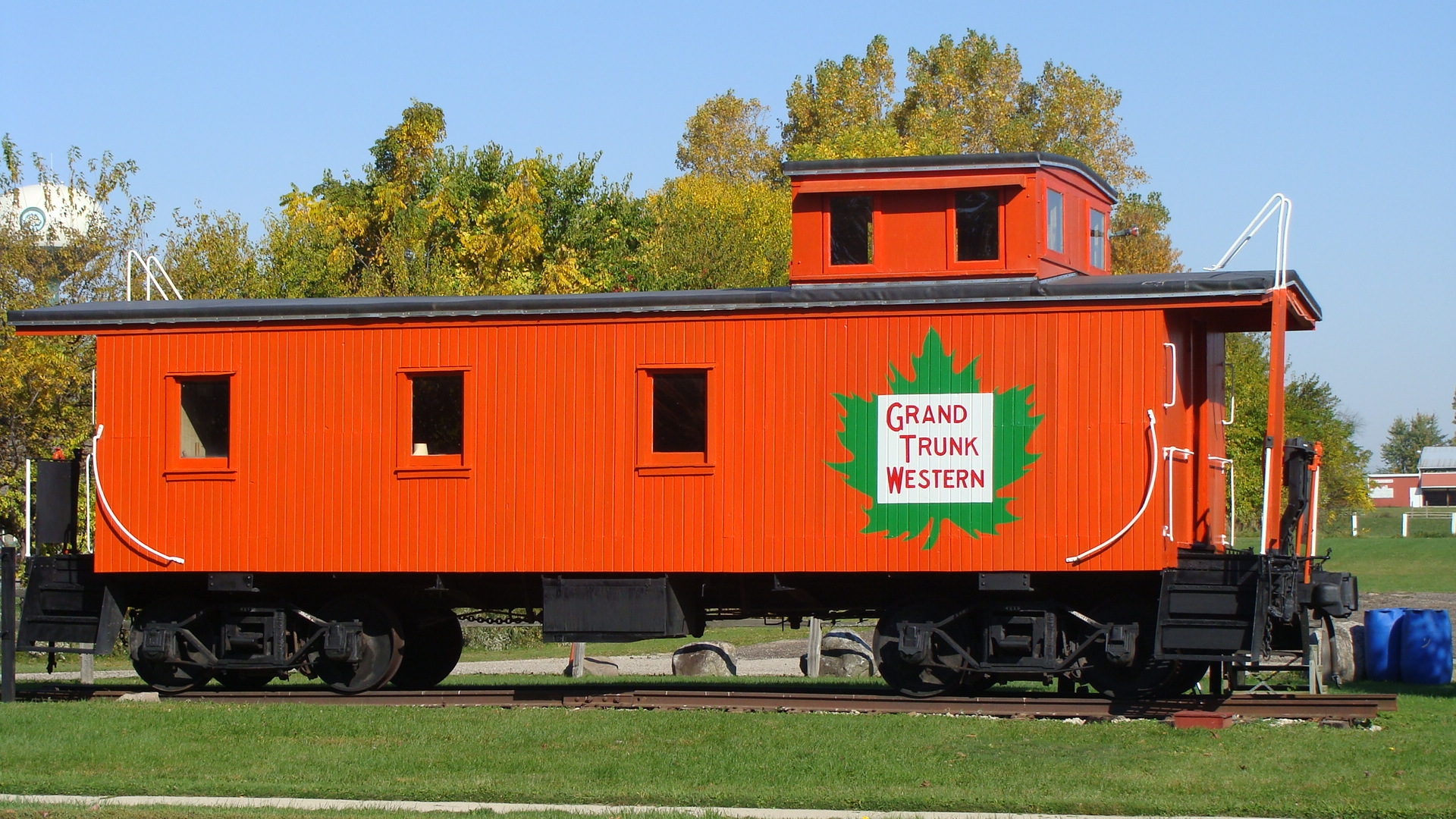 Lake Odessa's Grand Trunk Caboose